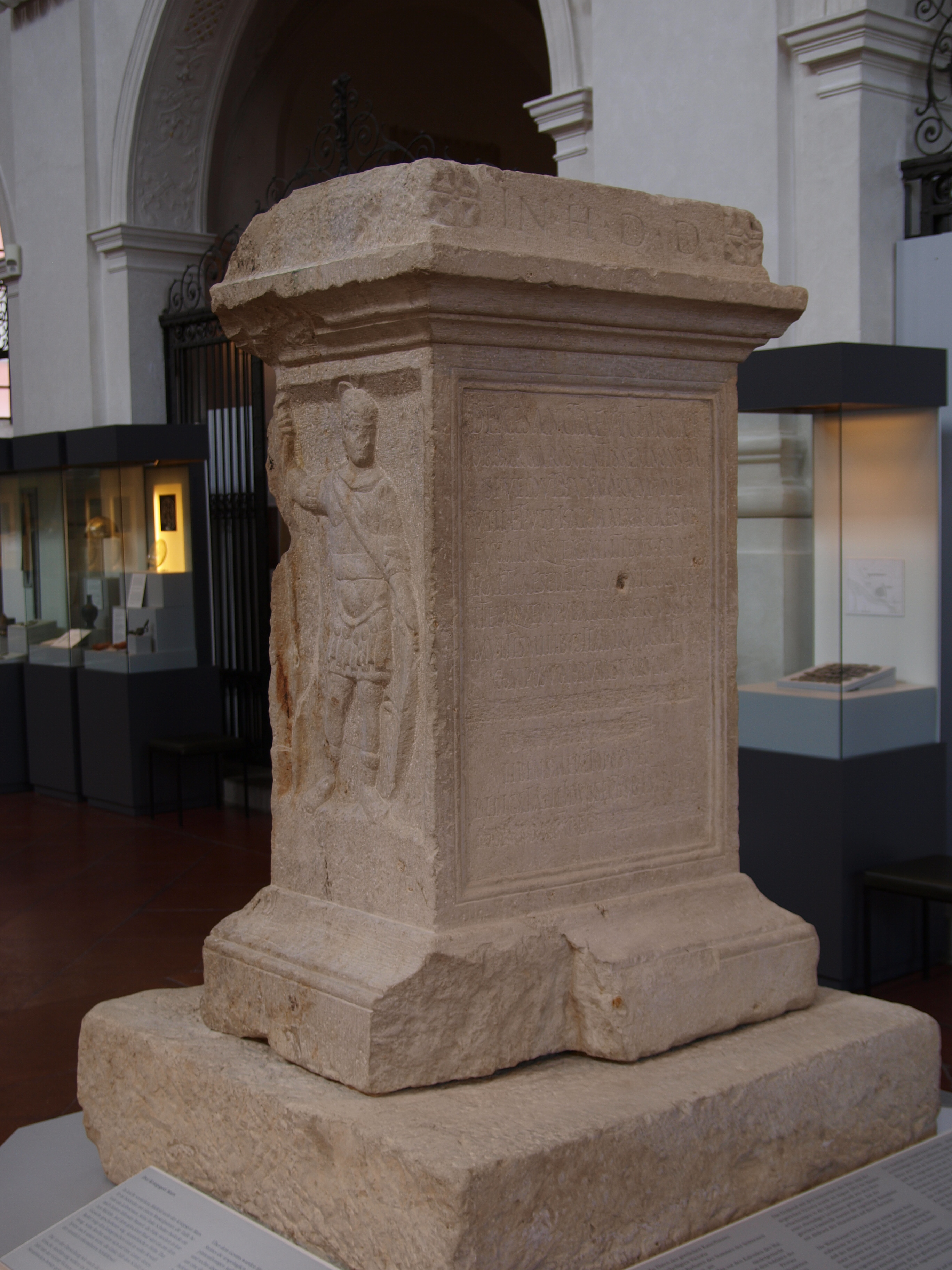 Roman memorial stone from Augsburg, Germany